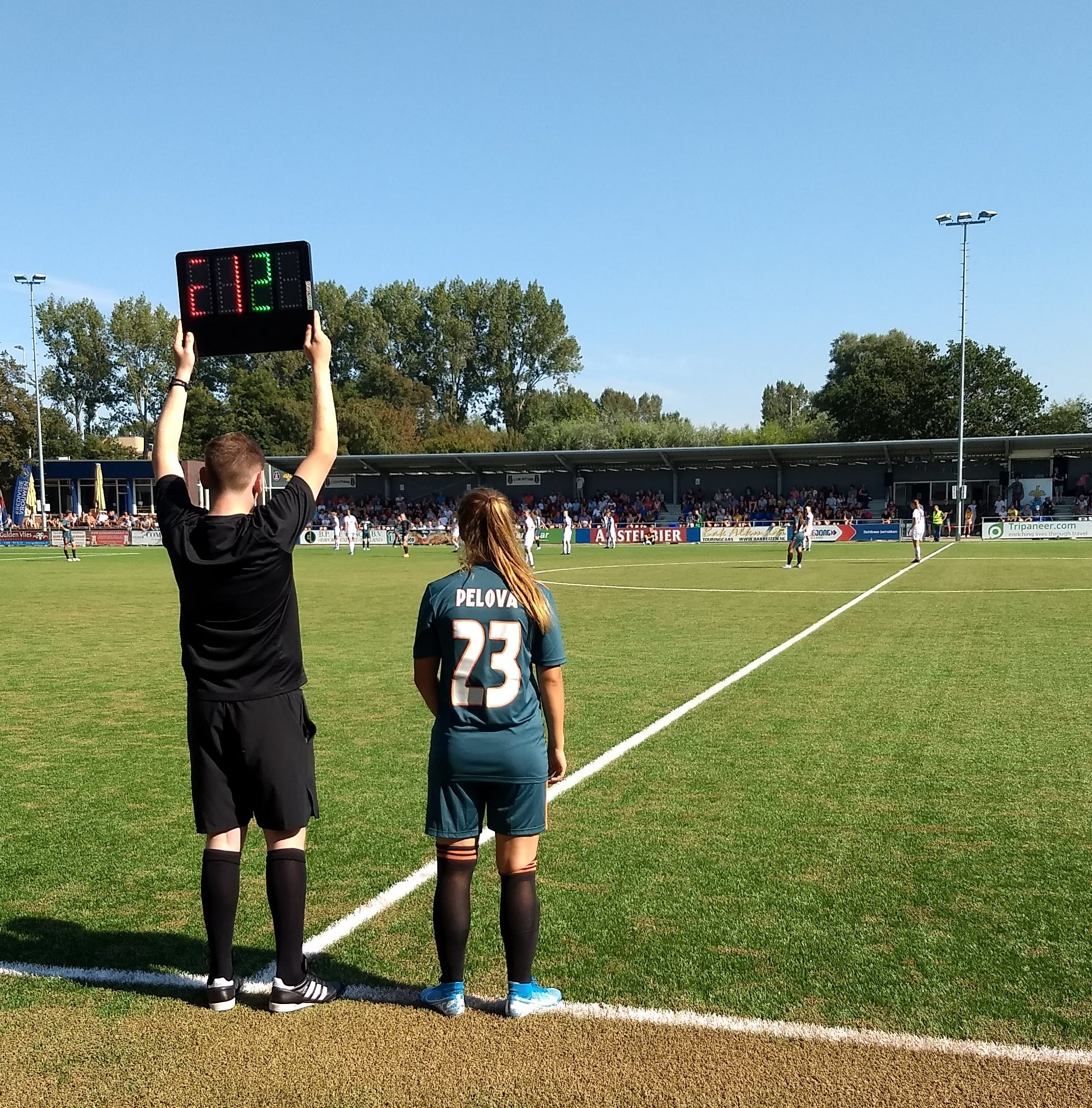 VV Alkmaar - Ajax –– 25 aug 2019